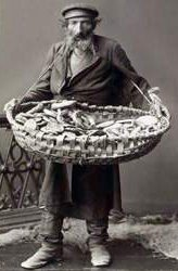 Bublik seller, Chisinau, about 1900